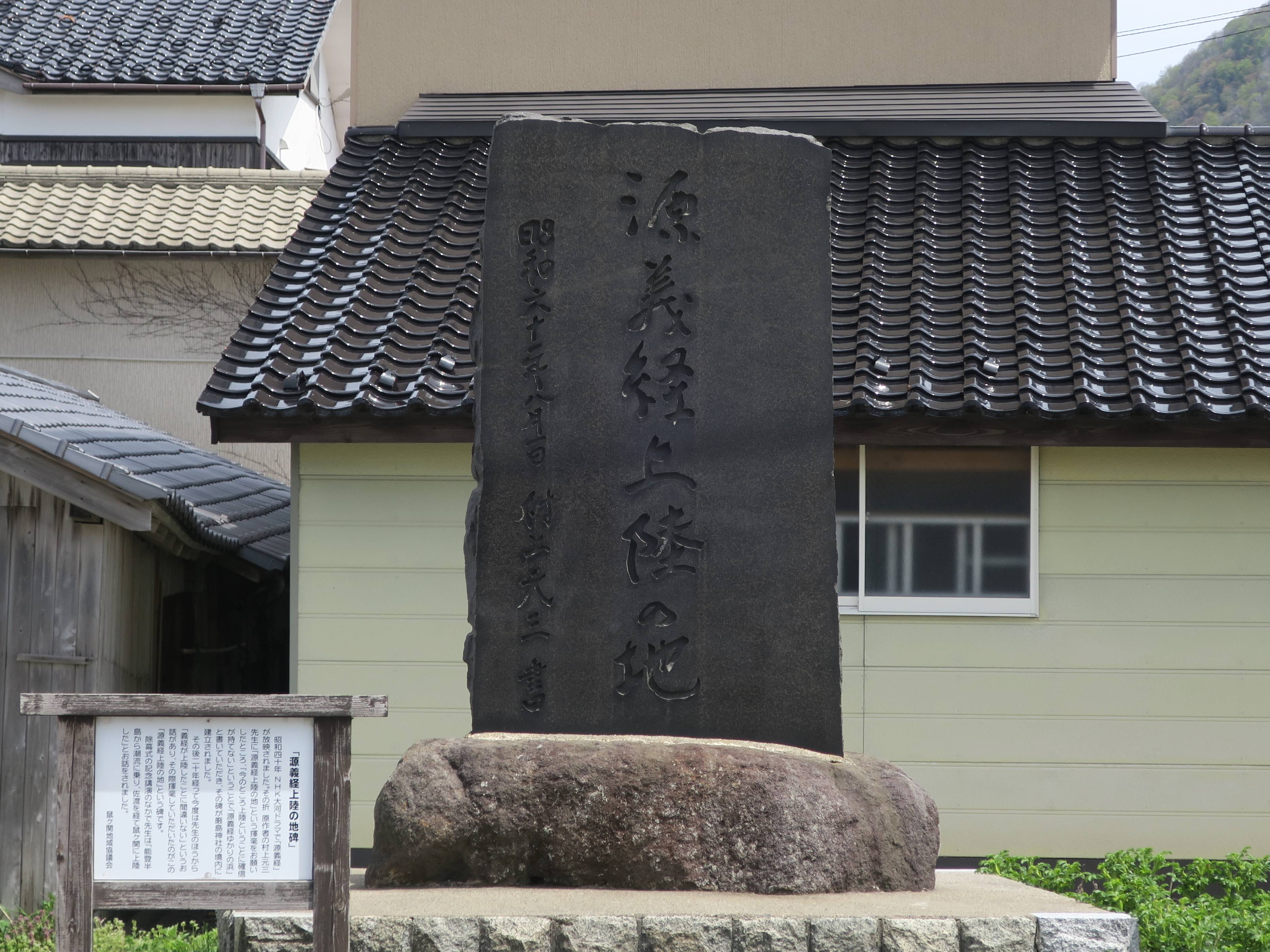 Nezugaseki Minamoto no Yoshitsune monument (Tsuruoka, Yamagata).